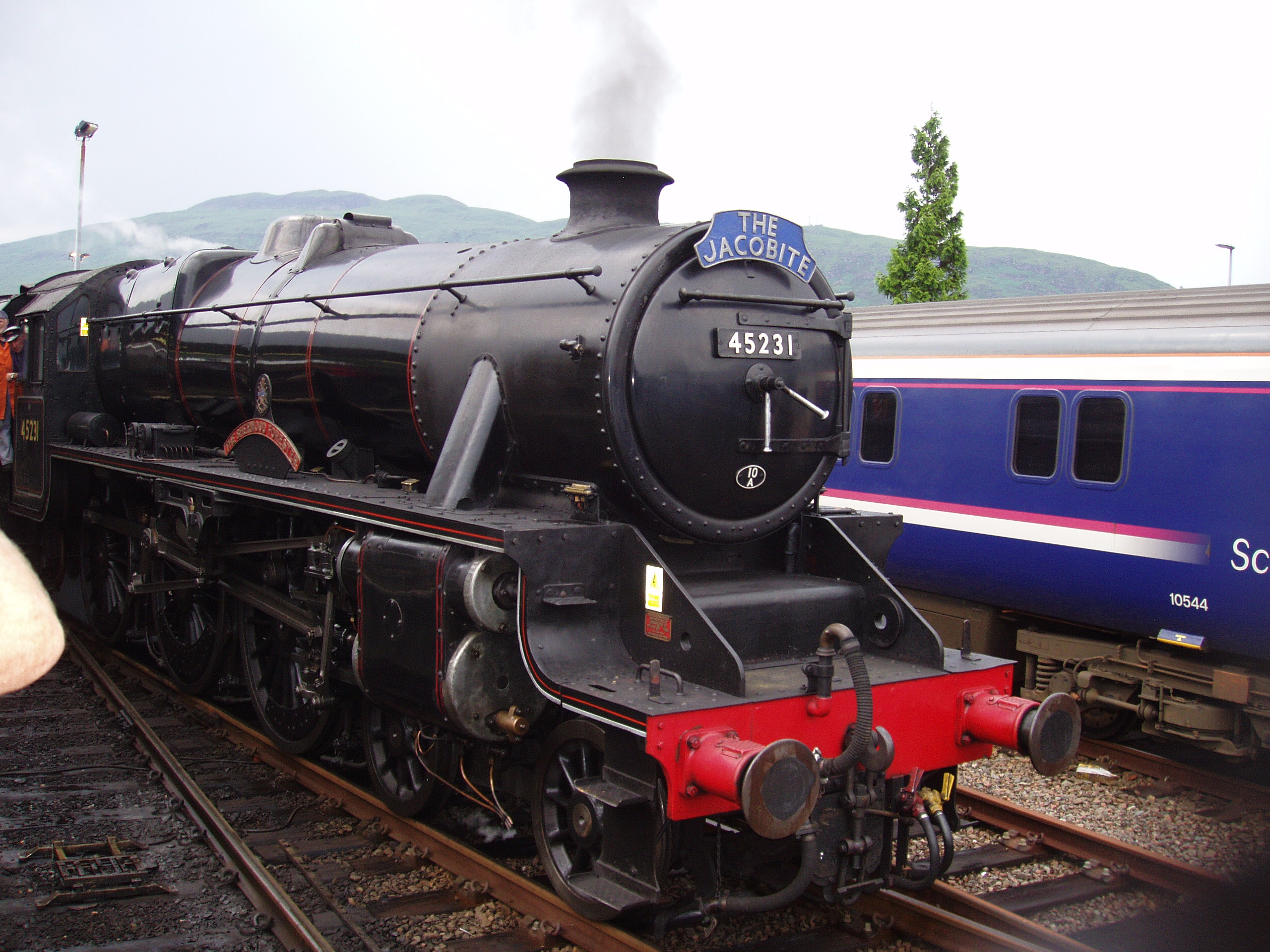 Locomotive 45231 is repositioned at Fort William Railway Station having just hauled passenger cars from Mallaig. At the time of this picture she carries the name "The Sherwood Forester" and operates "The Jacobite" service.